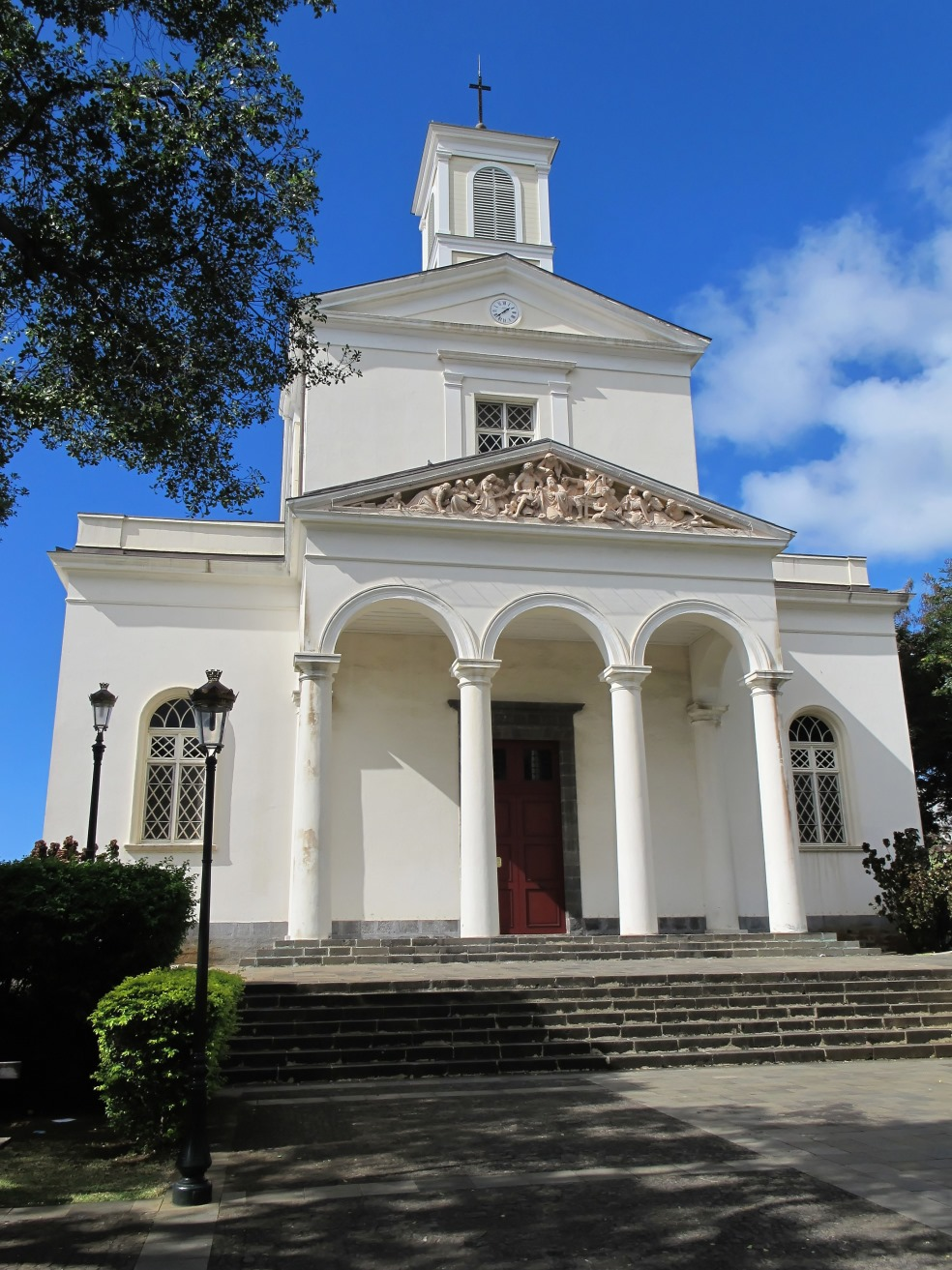 Saint-Denis: kath. Kathedral "Saint-Sauveur"